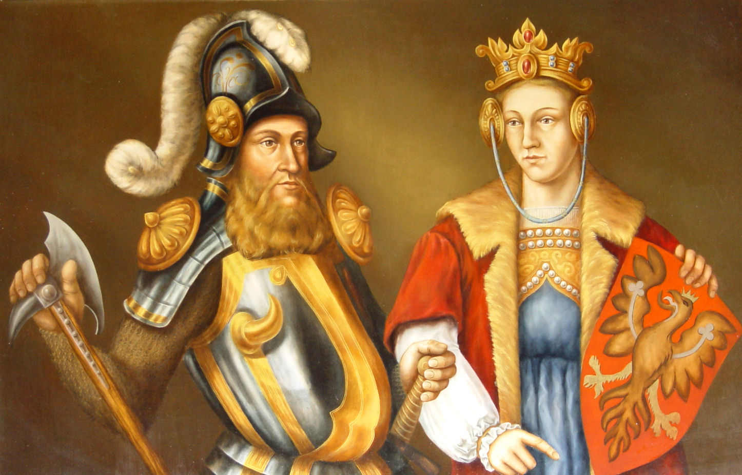 Painting of Boguslaw V with his wife Elisabeth, from museum: Castle of Dukes of Pomerania, Darłowo, Poland